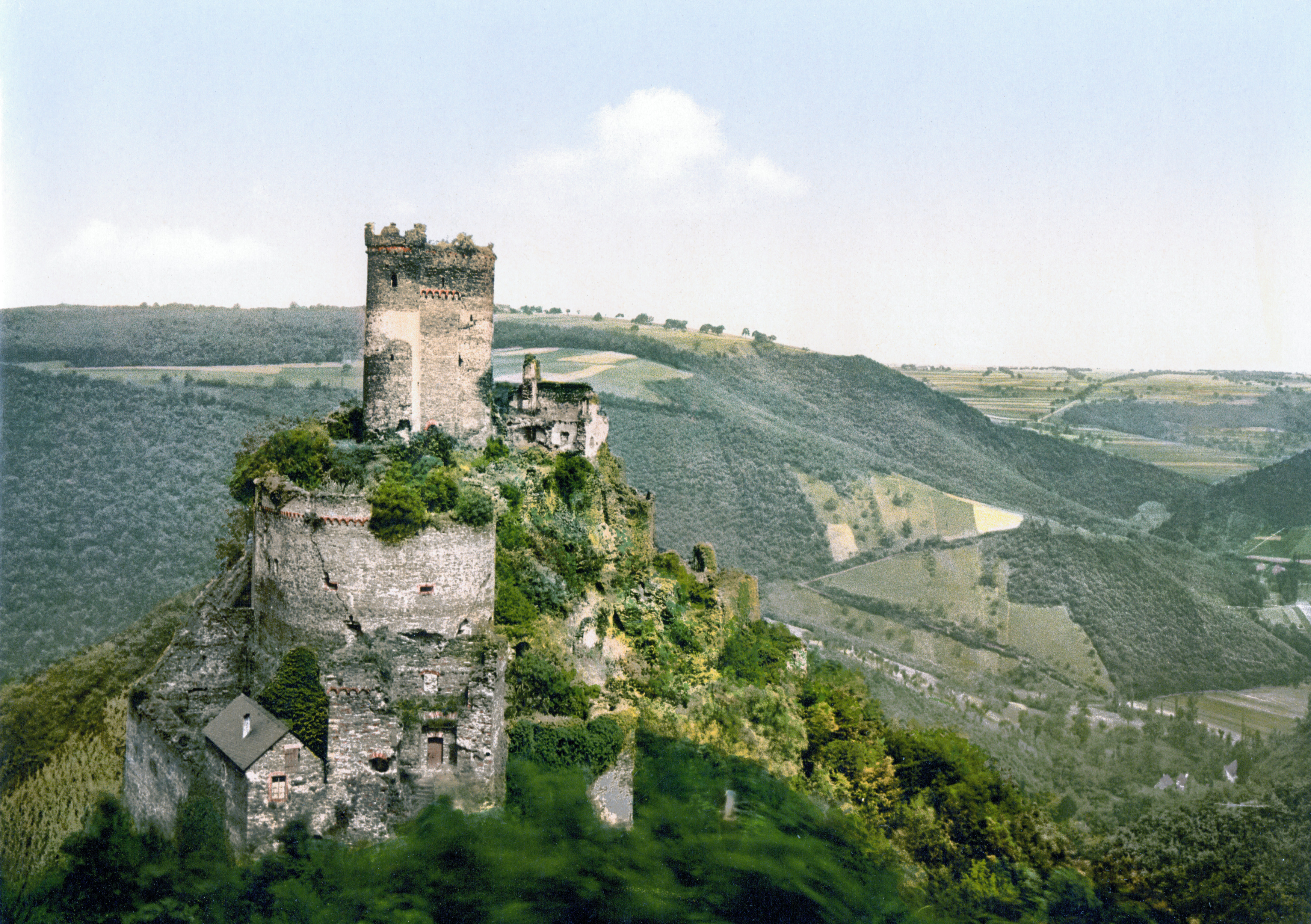 The Ehrenburg nearby Brodenbach, Germany, eastern aspect